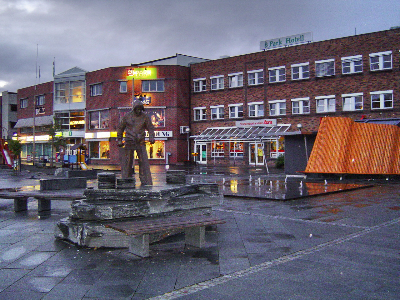 Statue in the center of the town Alta, Norway